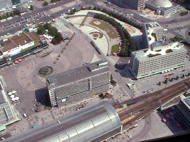 The Alexanderplatz in Berlin from the TV-Tower